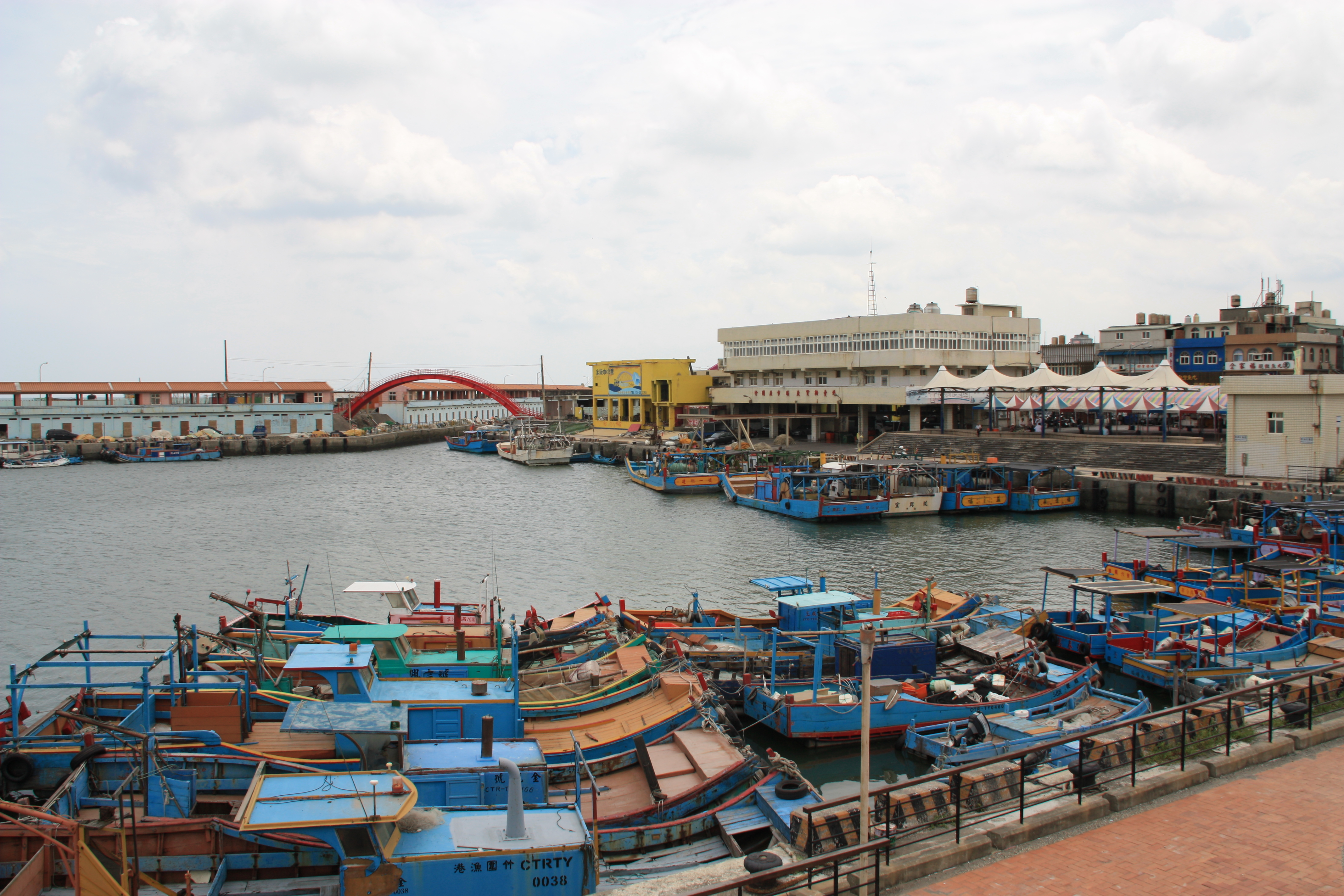 Taoyuan County, TaiwanDayuan TownshipChuwei fishing harbor